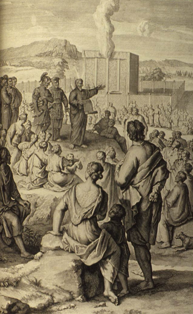 Moses Promulgates the Law, as in Deuteronomy 5:1-5, 32, 33; illustration from the 1728 Figures de la Bible; illustrated by Gerard Hoet (1648-1733) and others, and published by P. de Hondt in The Hague; image courtesy Bizzell Bible Collection, University of Oklahoma Libraries